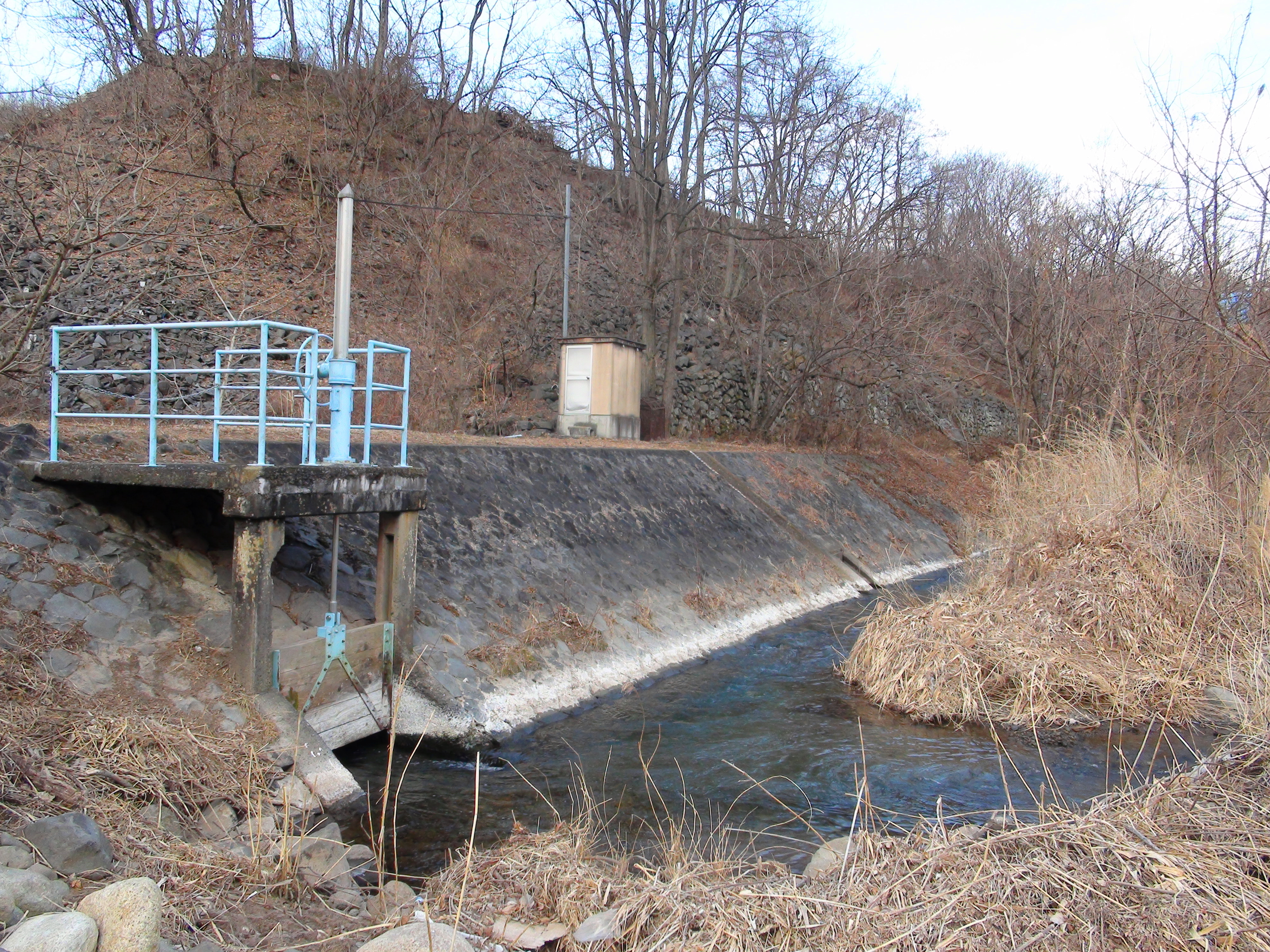 Kamijo-Seki irrigation waterway water intake entrance in Yamanashi prefectur